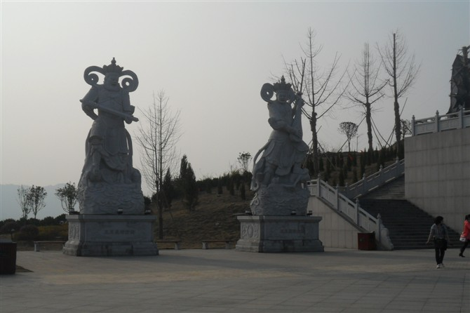 密印寺位于湖南省宁乡县沩山镇境内，地处沩山毗庐峰，始建于唐朝元和二年（807年），为裴休任潭州刺史时所建；其开山祖师为高僧灵祐禅师，佛教禅宗五派沩仰宗的发源地，被誉为沩仰宗的祖庭。此照片为密印寺的四大金刚塑像。